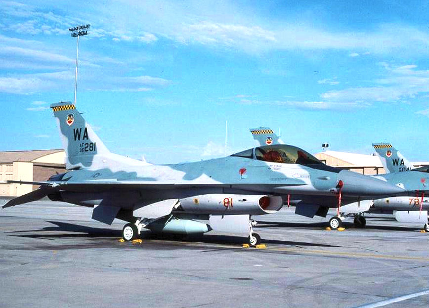 414th Combat Training Squadron - General Dynamics F-16C Block 32D Fighting Falcon 86-0281